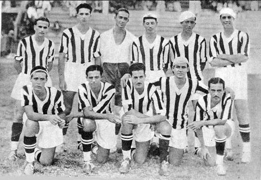 The Botafogo de Futebol e Regatas team of 1930, champion of Campeonato Carioca.